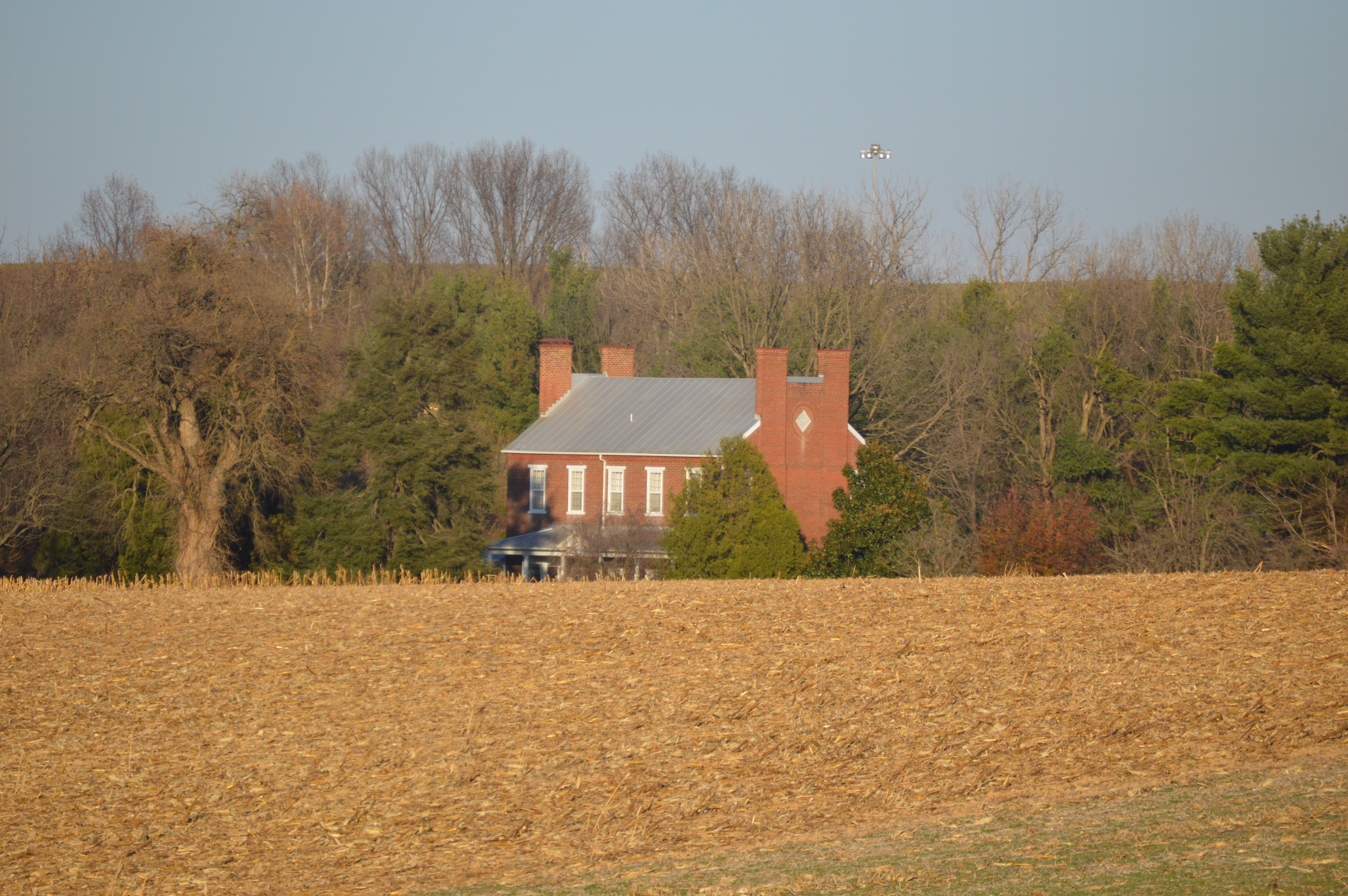 Roadside view of Contentment, located on U.S. Route 11 just south of Mount Crawford in Rockingham County, Virginia, United States. Built in 1823, it is listed on the National Register of Historic Places.